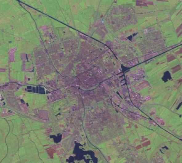 Groningen, Netherlands. Satellite view.